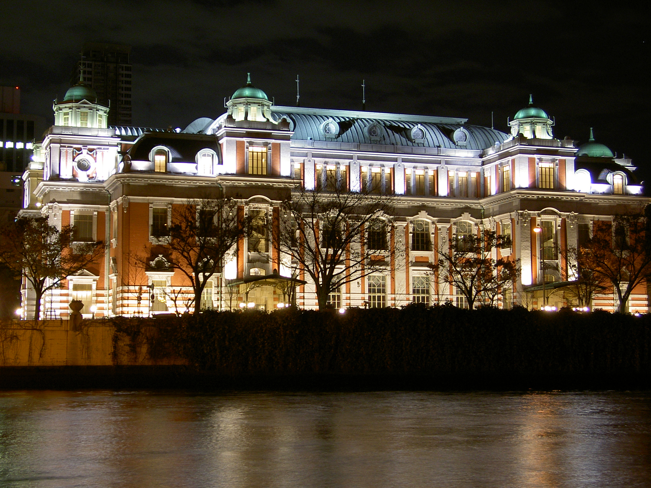 The night view of the Central Public Hall from the Dojima river_side, 1-1-27, Nakanoshima, Kita-ku, Osaka Japan.